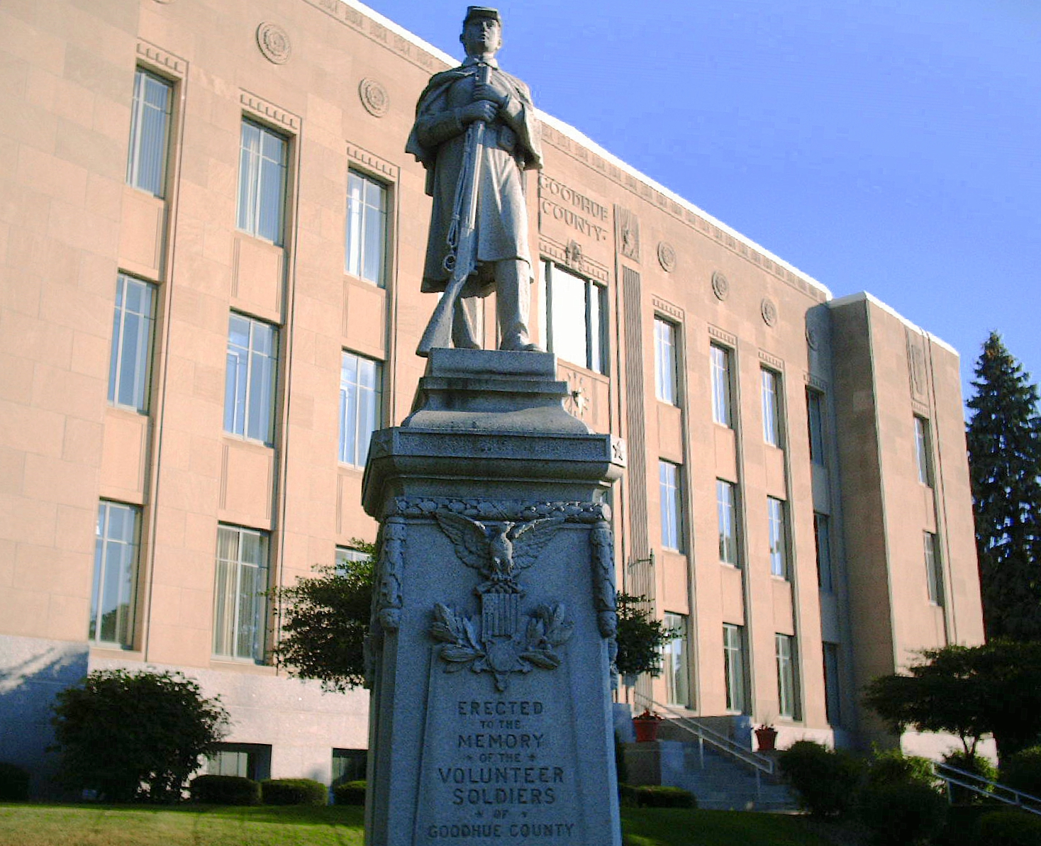 Photo I took 2006-07-08 of the Goodhue County Courthouse in Red Wing, Minnesota. CC & GFDL.